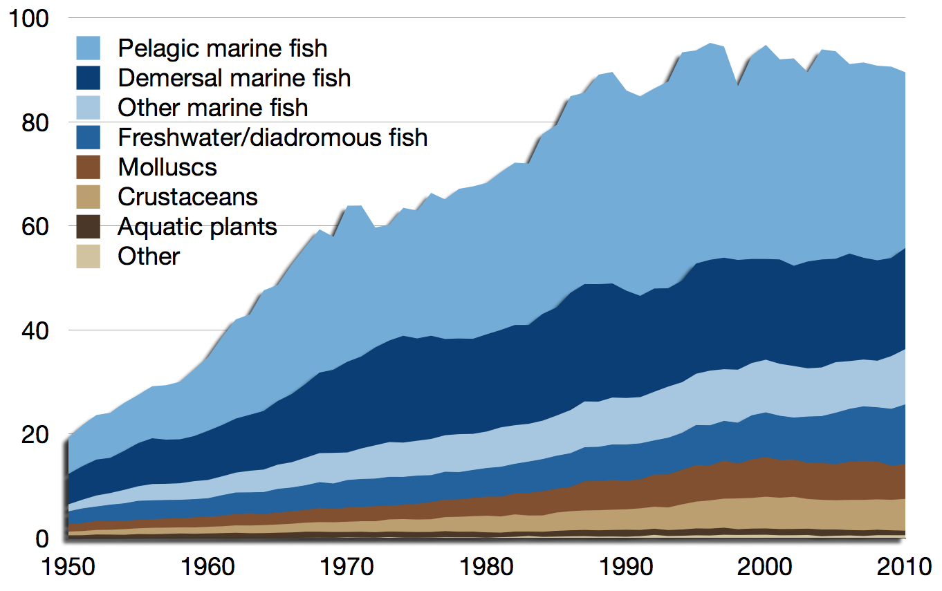 Global wild fish capture in million tonnes, 1950–2010, as reported by the FAO. Based on data sourced from the FishStat database